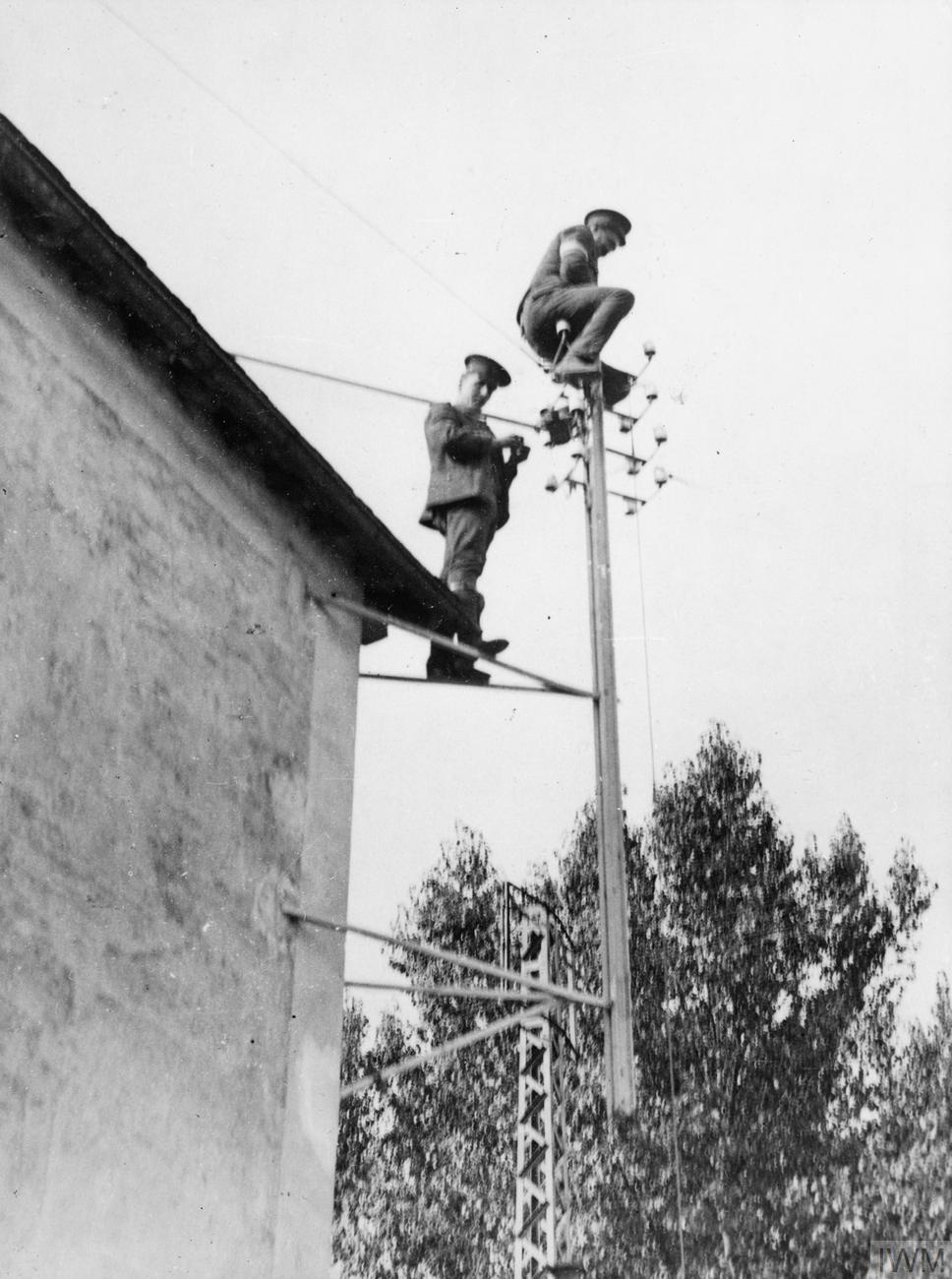 The Western Front, 1914 Men of the Royal Engineers repair broken telegraph wires on the Western Front on 28 September 1914.